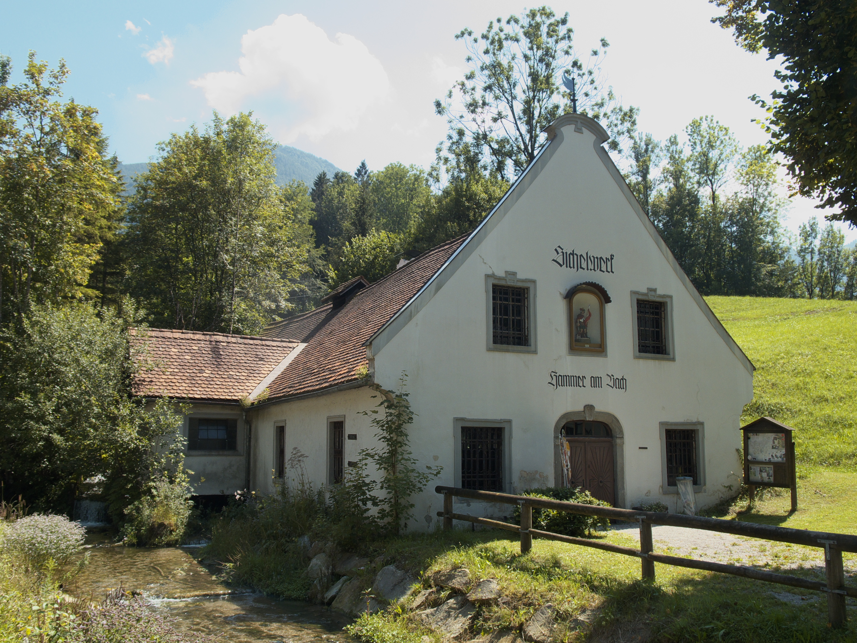 Historic hammer mill "Am Bach" in Opponitz.